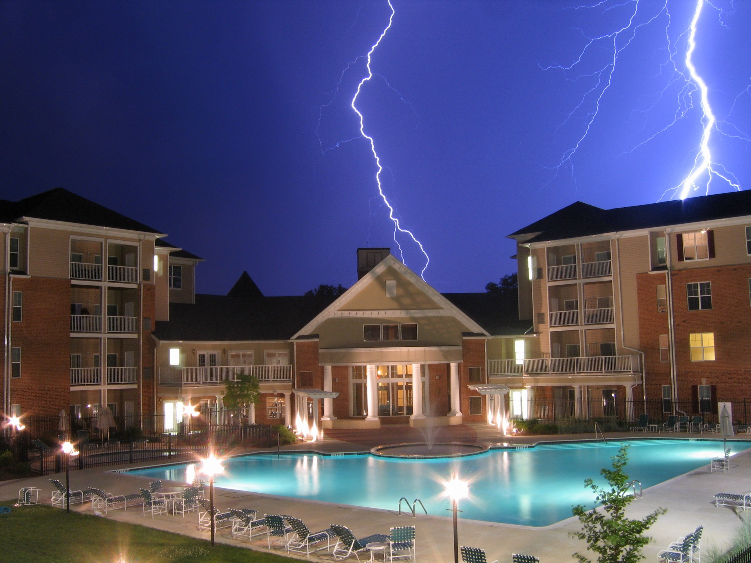 Lightning over Concord Park, Russett, Maryland